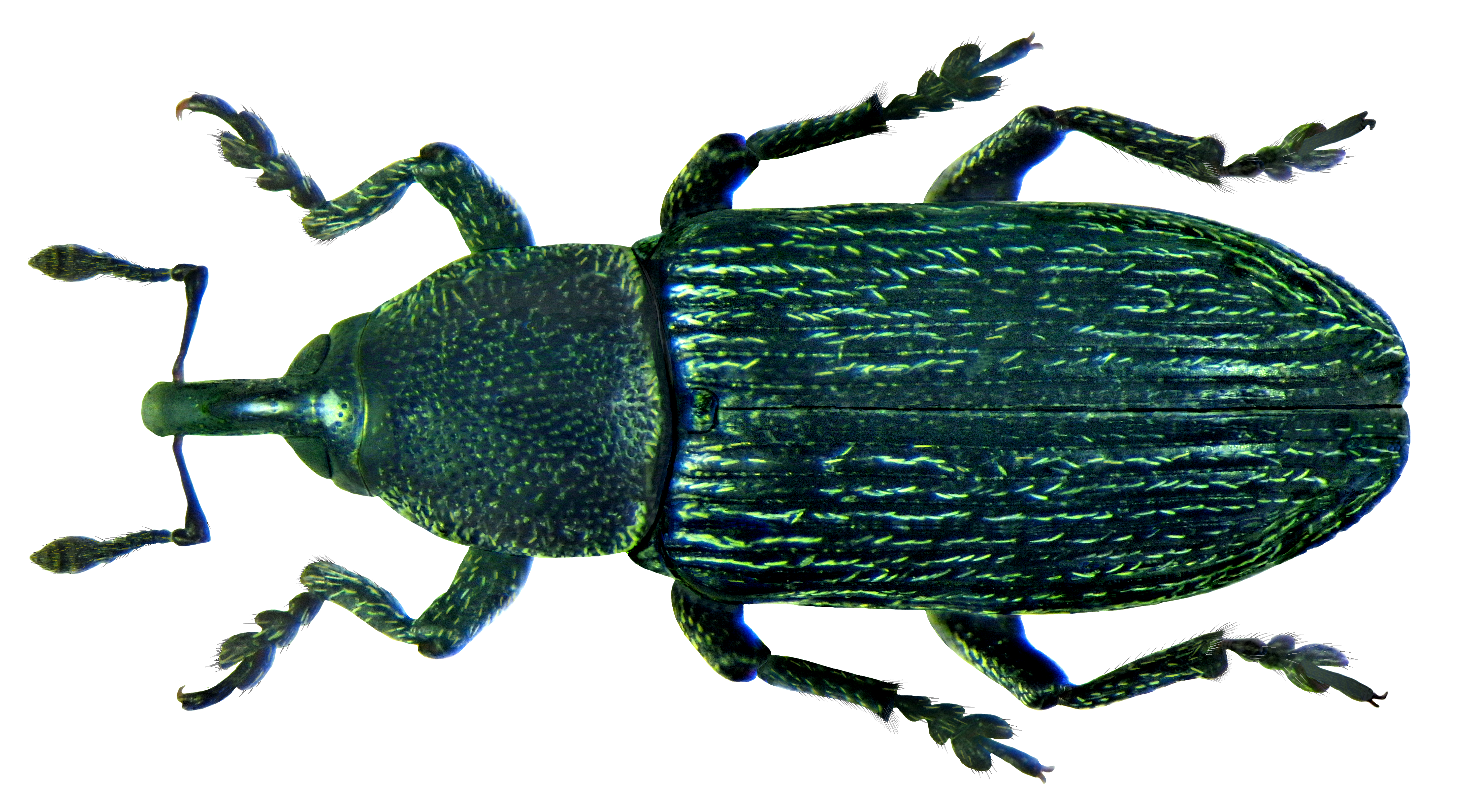 Family: Curculionidae Size: 4 mm (2,8-4,5 mm) Origin: Europe Ecology: lives on Cyperaceae and Juncaceae Location: Austria, Schladminger Tauern, Mariapfarr, 1200 m leg.det. U.Schmidt, 17.-24.VI.1984 Photo: U.Schmidt, 2013